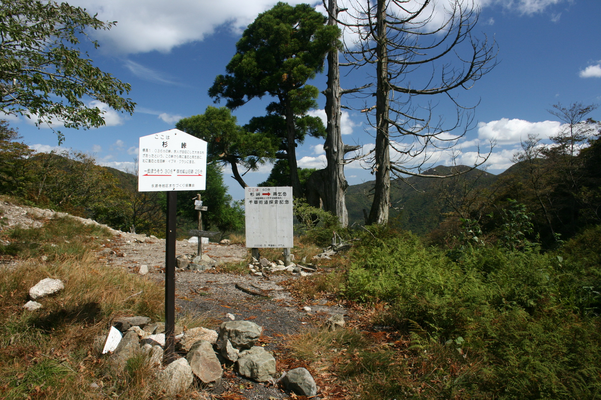 Sugitoge (Mountain passes) in Suzuka Mountains, Japan.